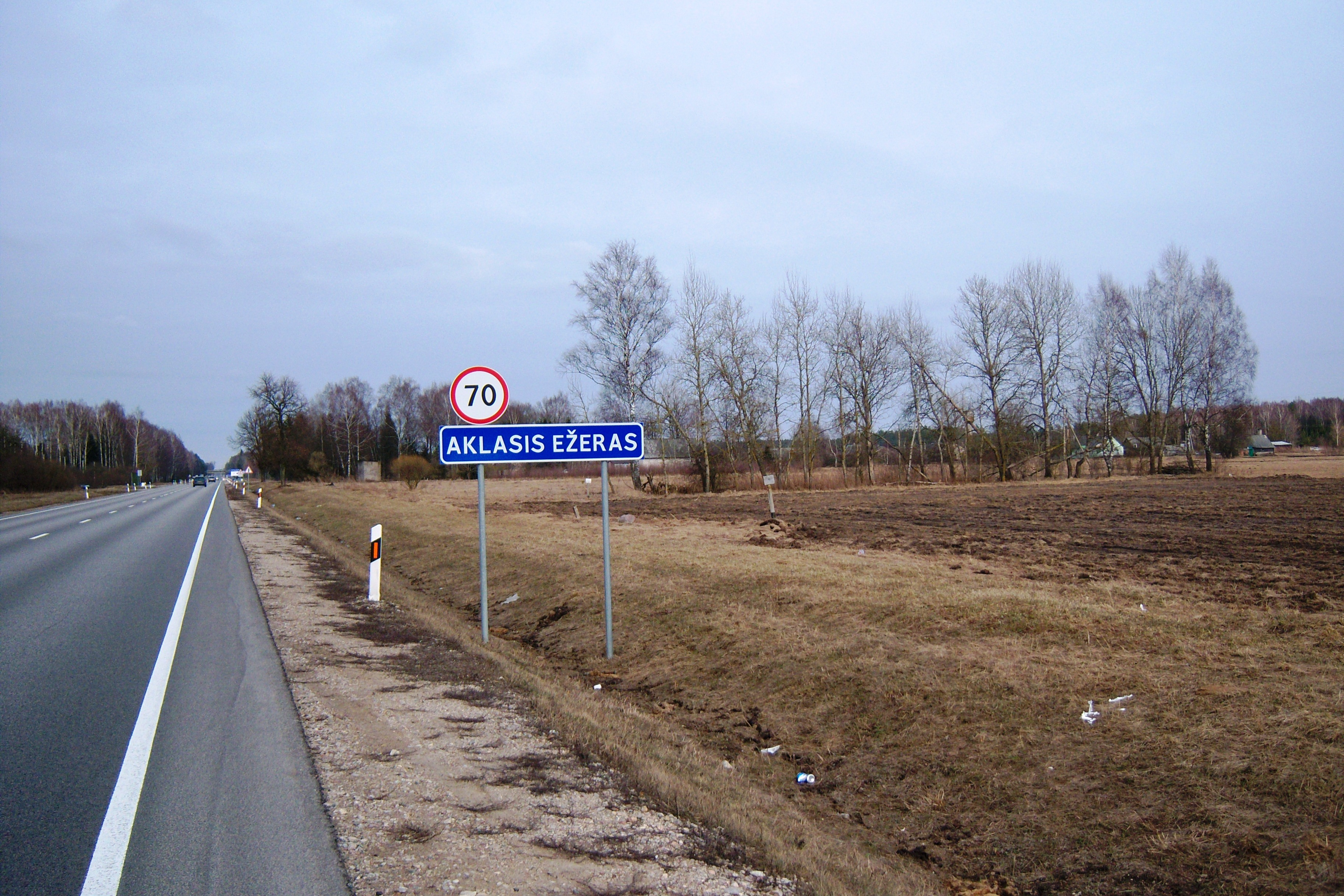 E262. Aklasis Ežeras (Jonavos r.)